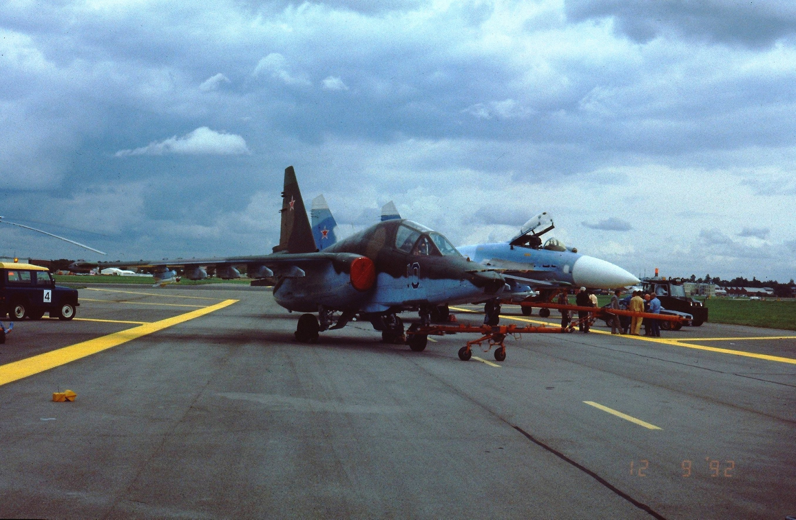 A Sukhoi Su-25T at Farnborough Airshow 1992.